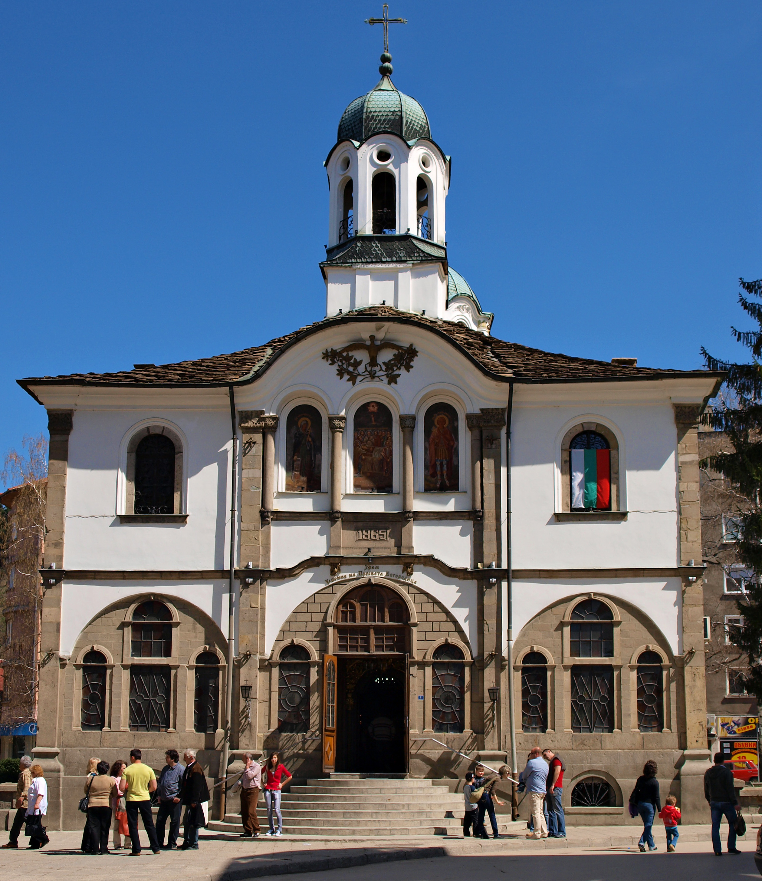 Dormition of the Most Holy Mother of God Church, Gabrovo